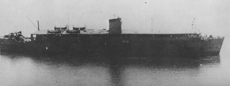 Imperial Japanese Army landing vehicle carrier Kumano Maru